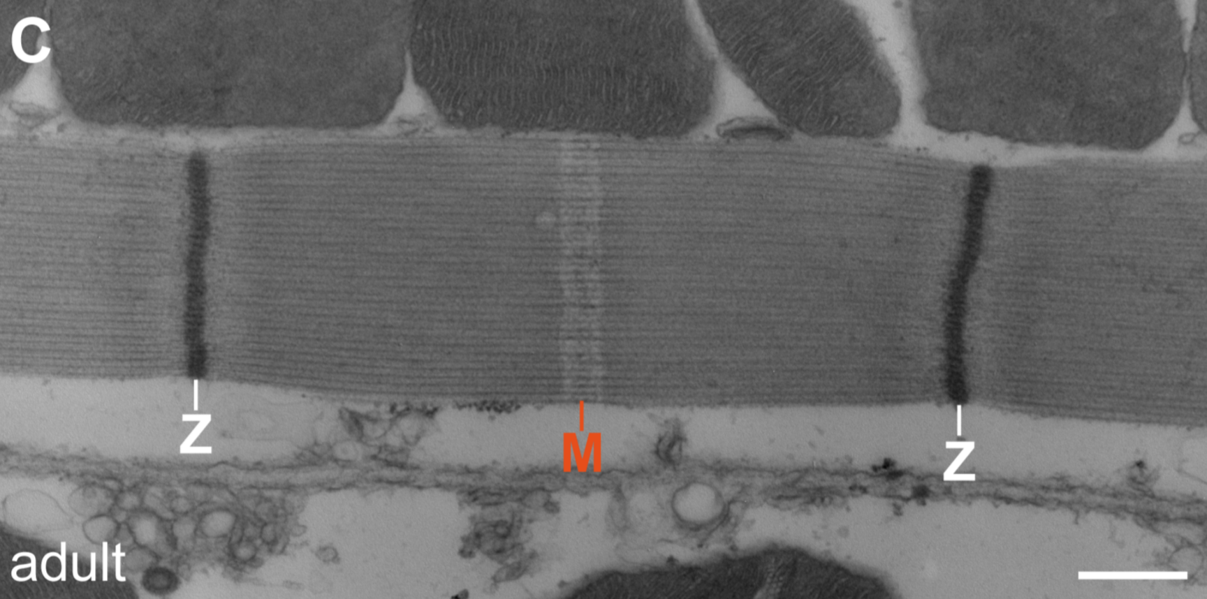 Figura 3. Electron microscopy of developing and adult flight muscle myofibrils. (A–C) Transmission electron microscopy images of longitudinal sections. Scale bars represent 0.5 μm